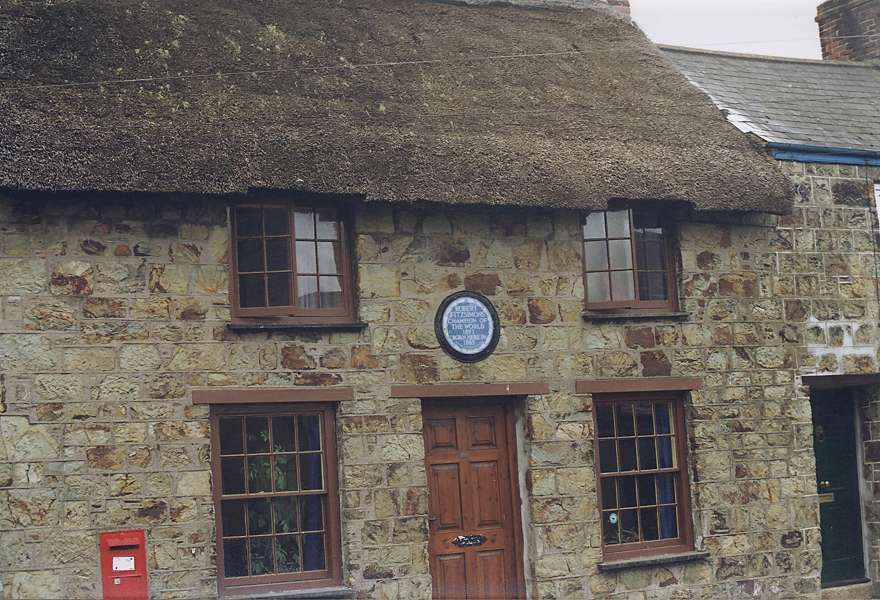 birthplace of Bob Fitzsimmons (1863 - 1917) in Helston